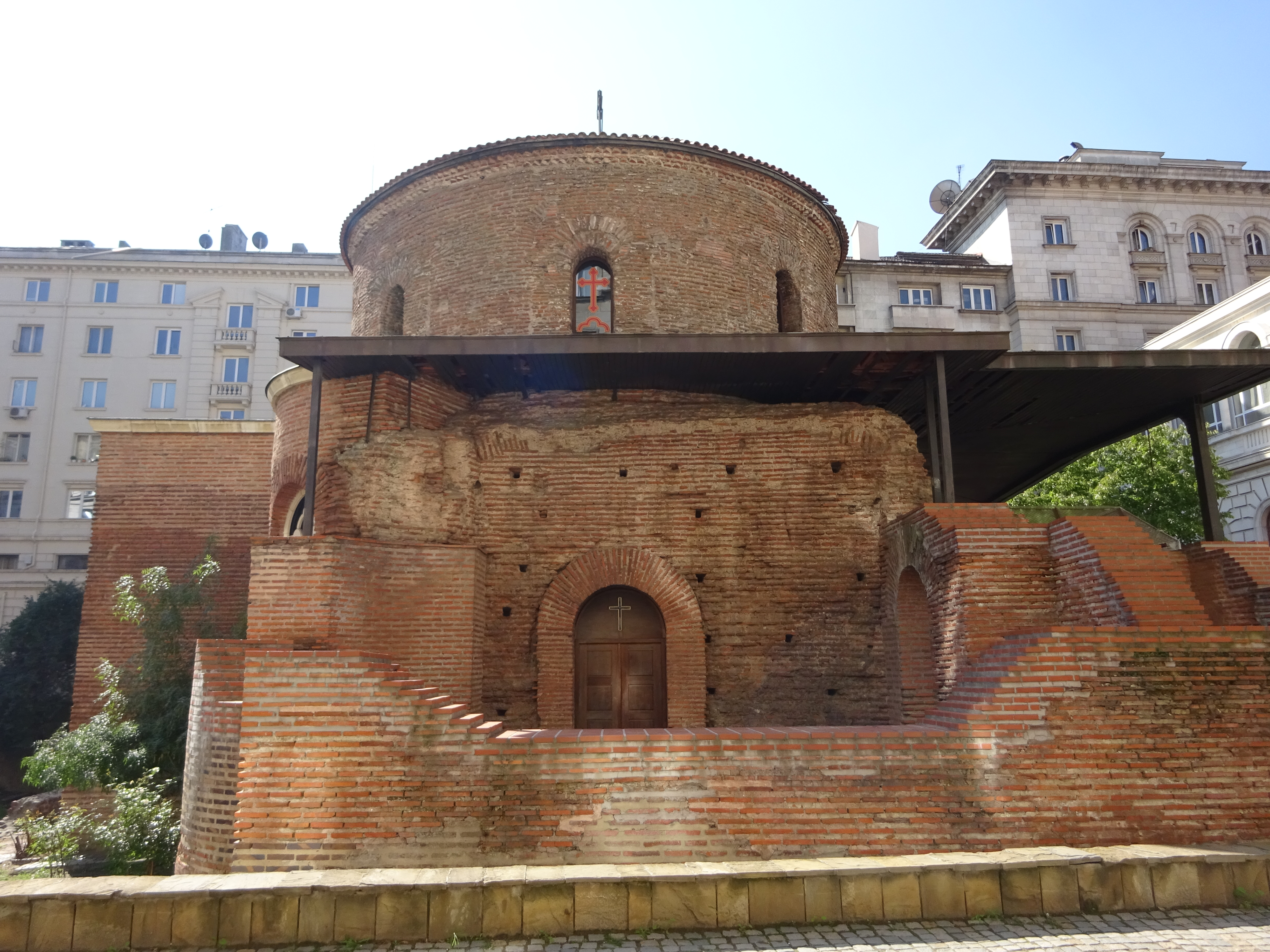 Church of St. Georg, Sofia